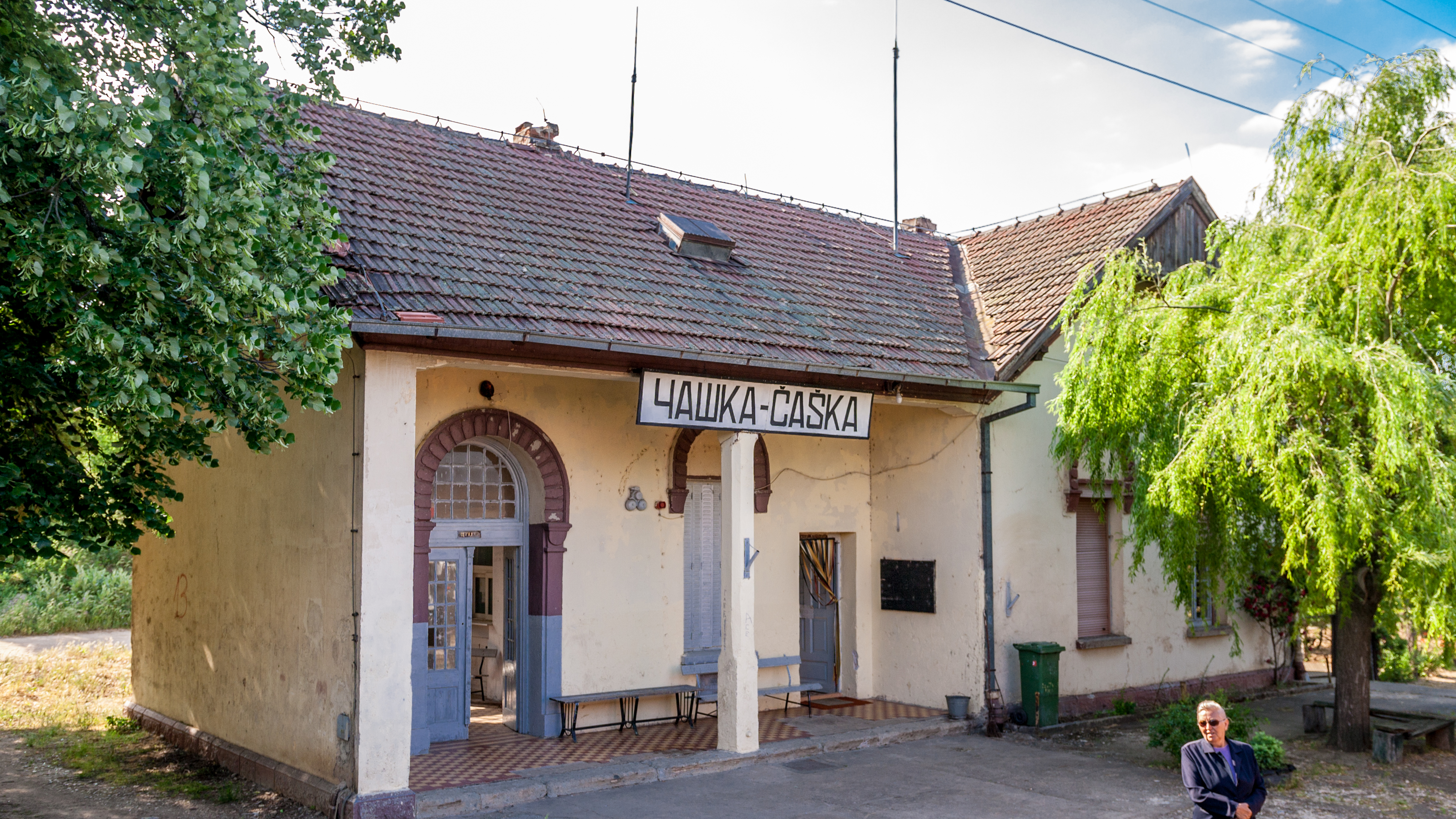 View of the Čaška train station